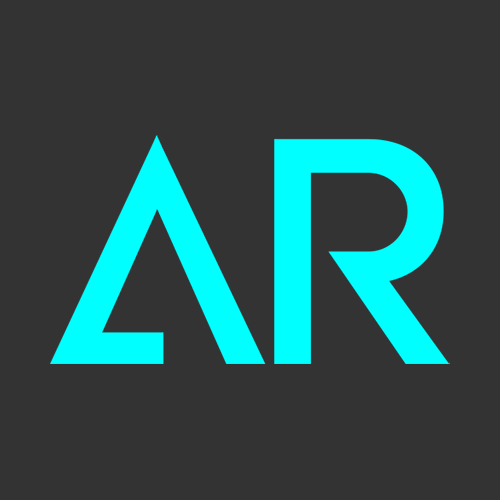 Logo of the ARToolKit project.